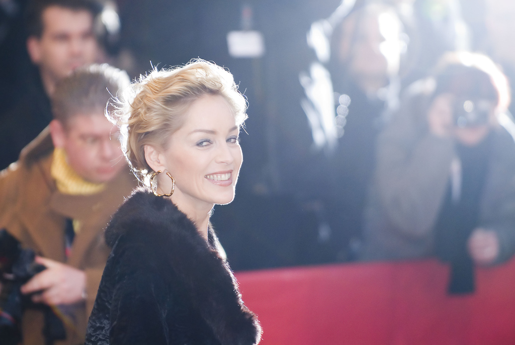 Sharon Stone Premiere of "When a man falls in the forest" at the Berlinalepalace, Marlene-Dietrich-Platz, Berlin